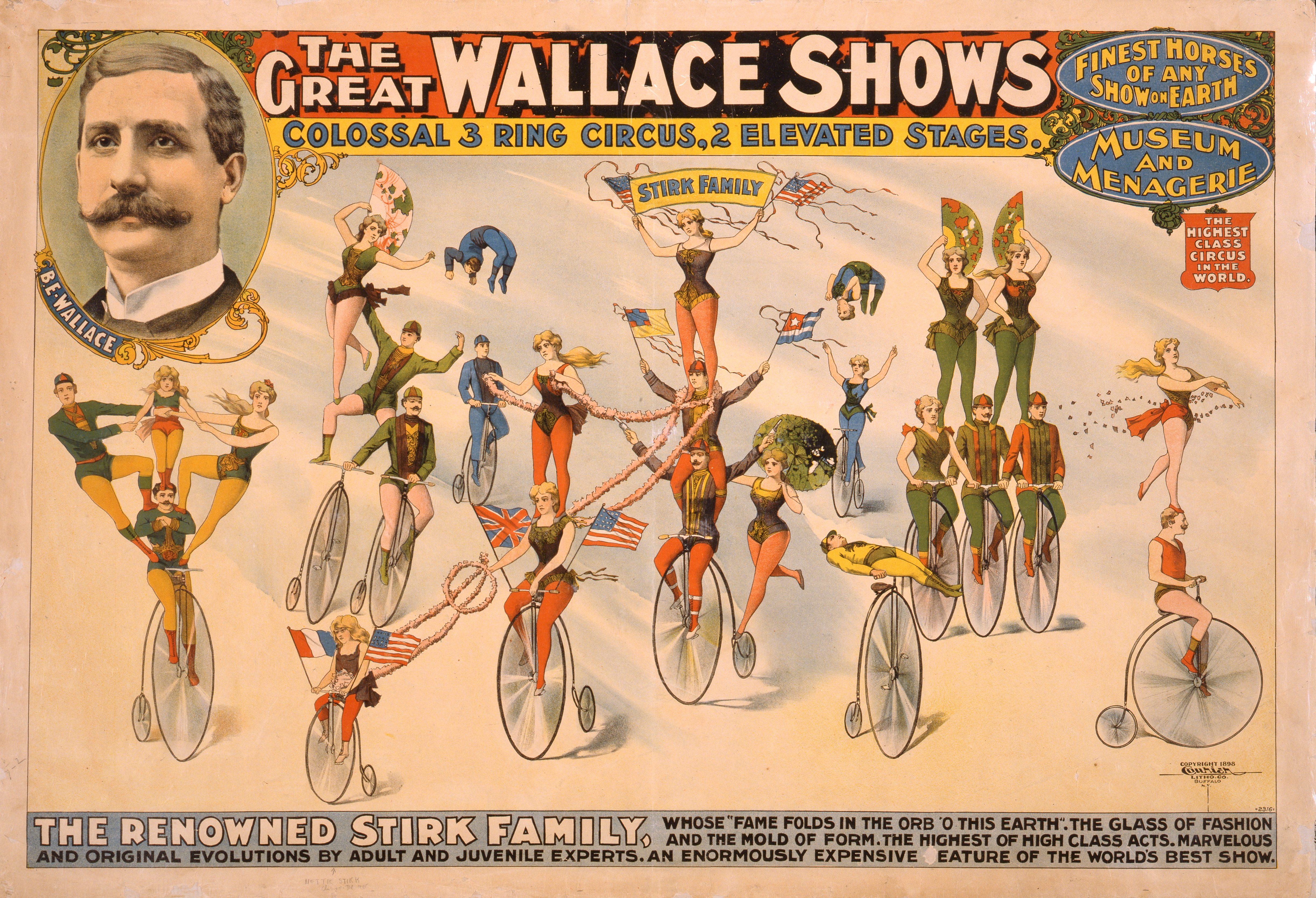 A poster advertising The Great Wallace Shows circus, featuring "the renowned Stirk Family." This poster was one of three at the center of the 1903 United States Supreme Court case Bleistein v. Donaldson Lithographing Co.